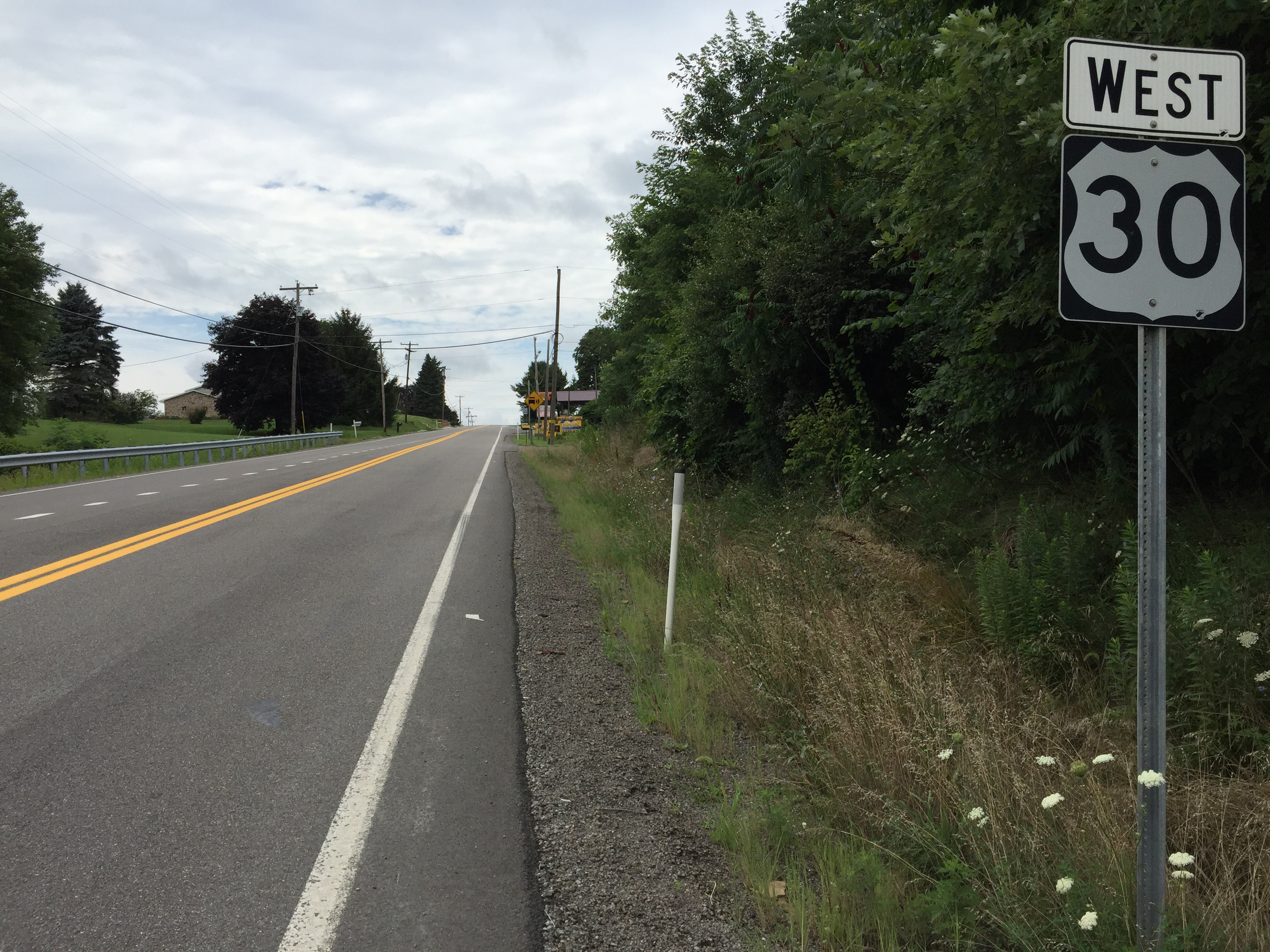 View west along U.S. Route 30 (Lincoln Highway) at West Virginia State Route 8 (Veterans Boulevard) in Lawrenceville, Hancock County, West Virginia